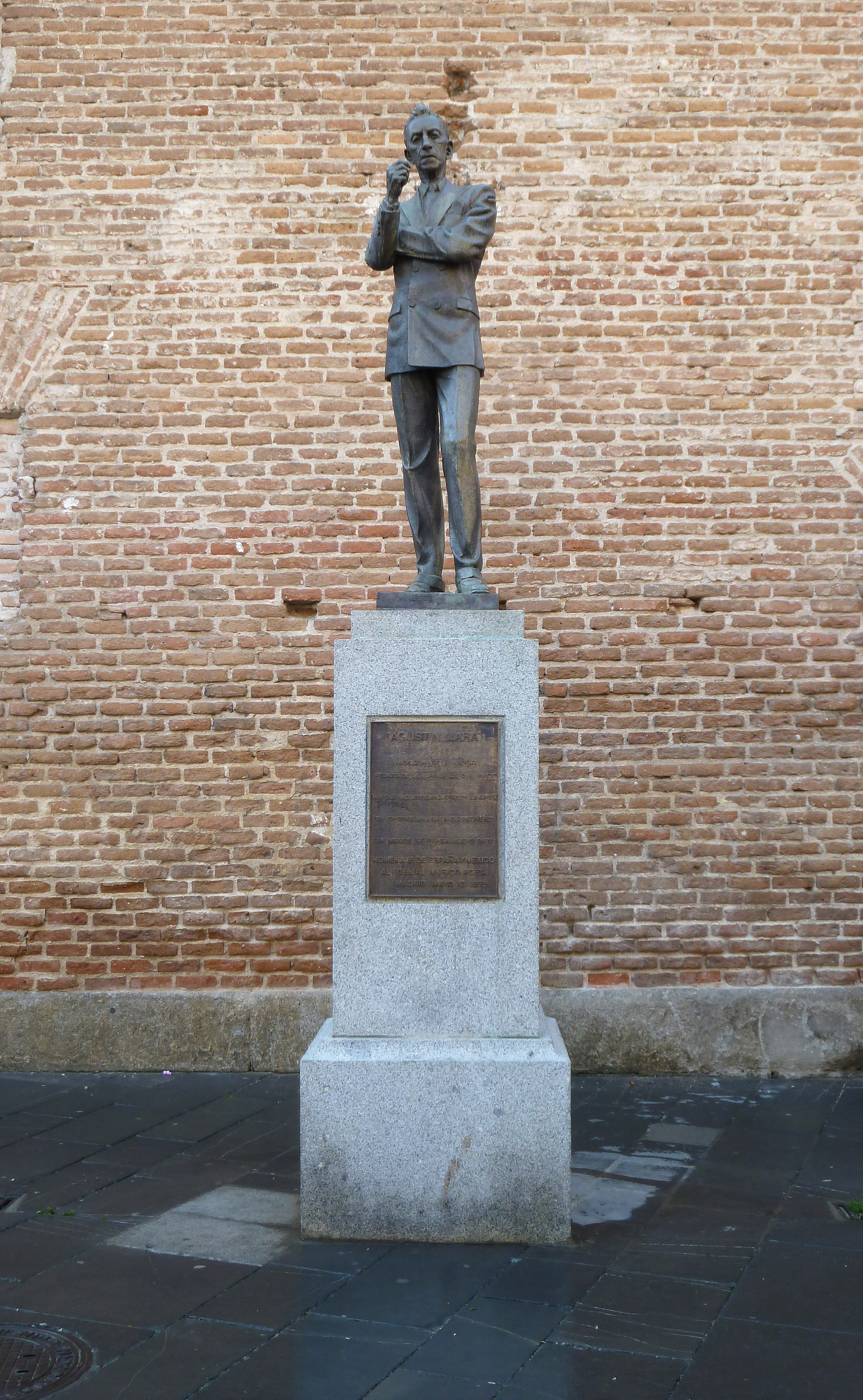 View of the Monument to Agustín Lara in Madrid (Spain). Statue was made by Mexican sculptor Humberto Peraza.